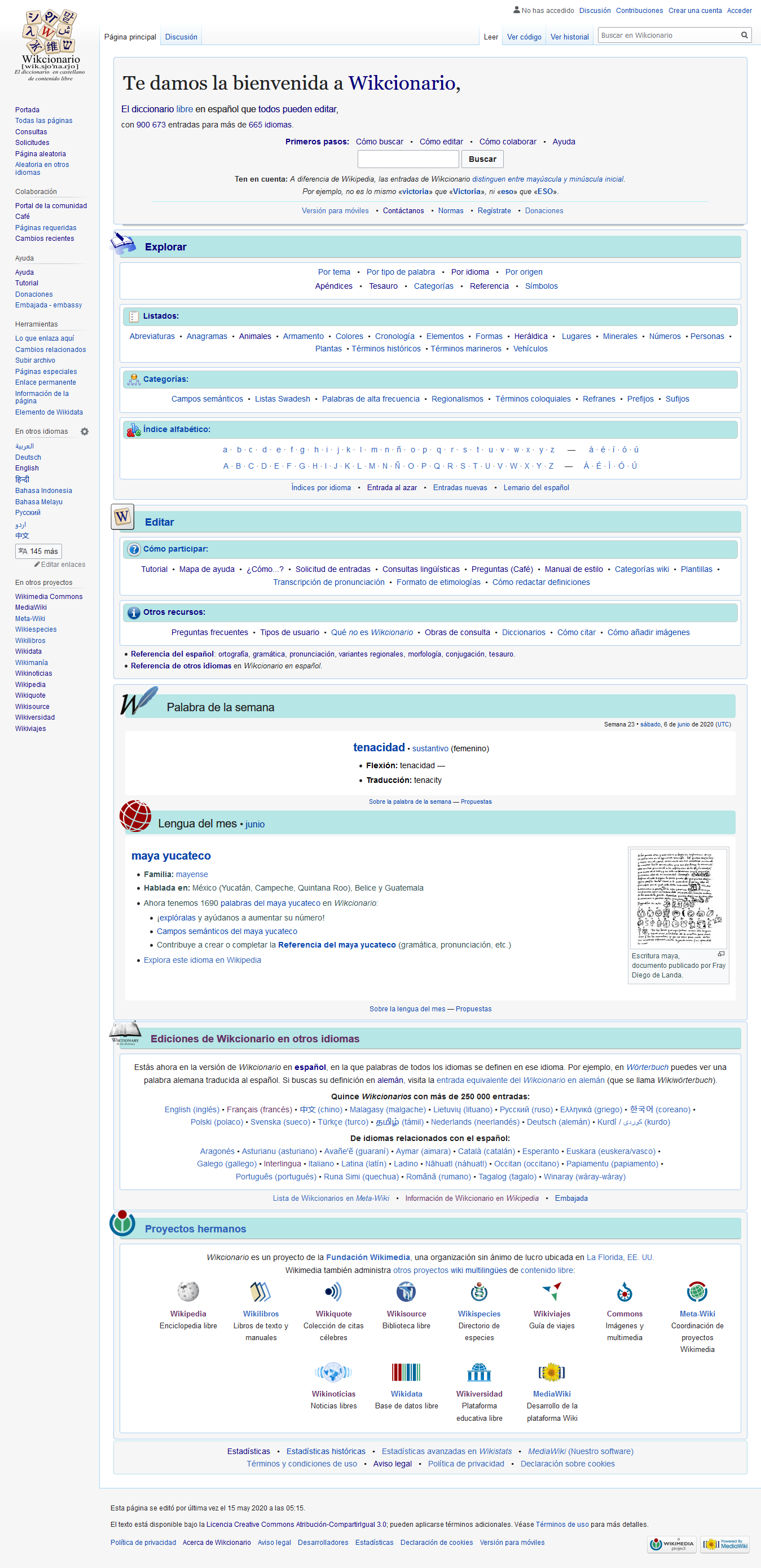 Wikcionary in Spanish main page.